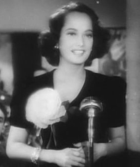 Cropped screenshot of Merle Oberon from the film Stage Door Canteen.